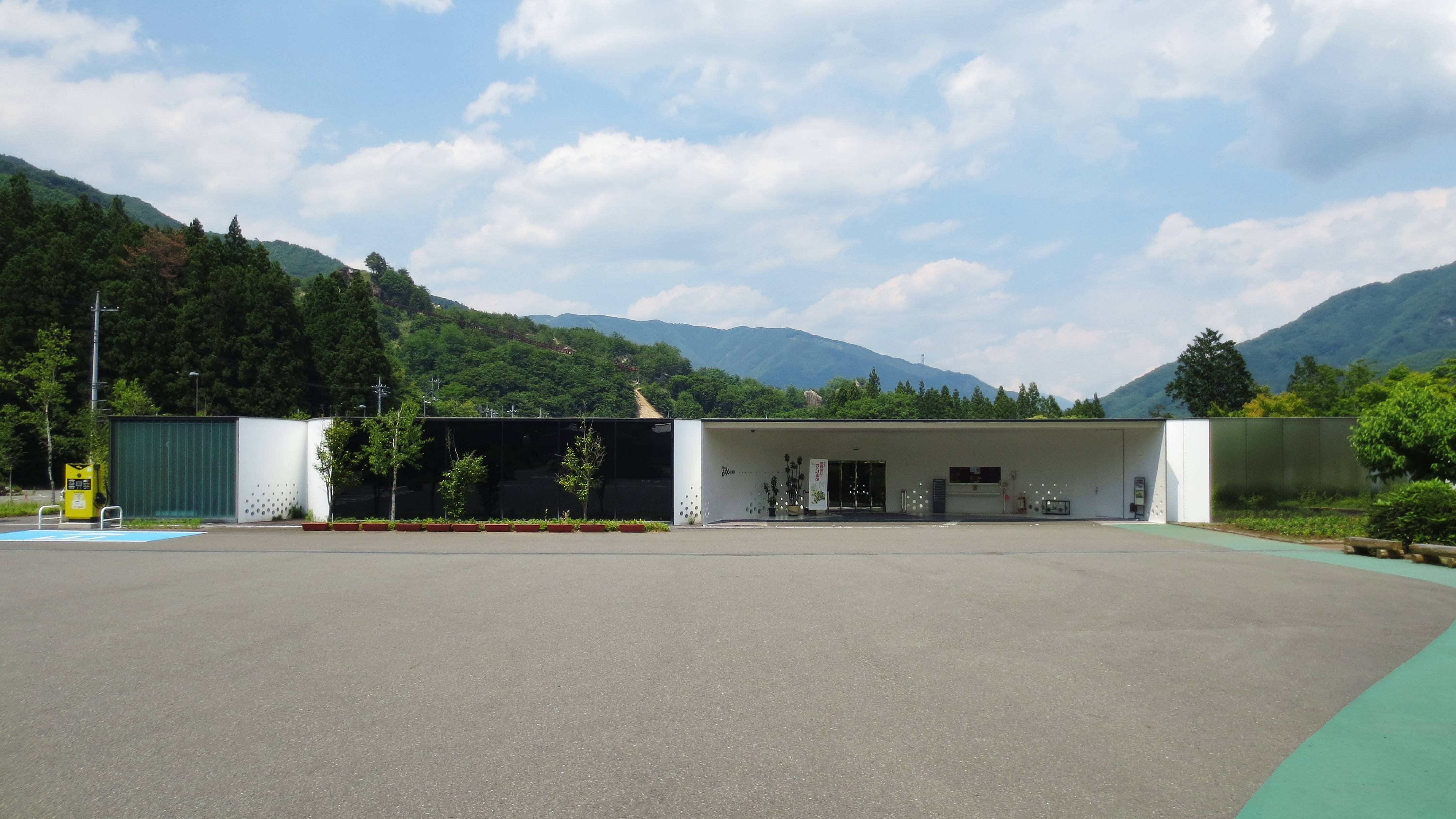 Tomihiro Art Museum (Midori, Gunma).